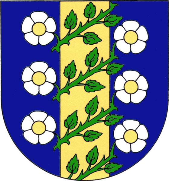 Municipal coat of arms of Droužkovice village, Chomutov District, Czech Republic.